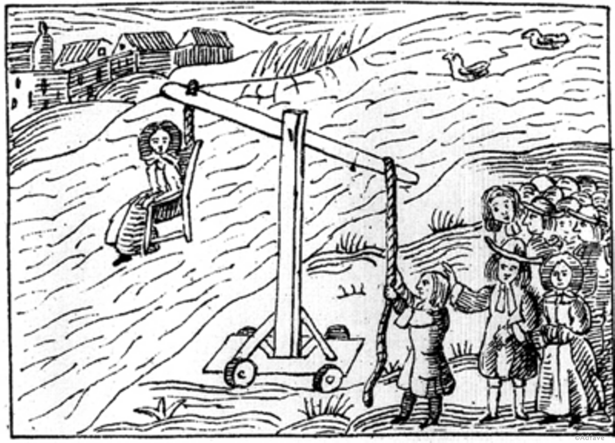 A common scold gets her comeuppance in the dunking stool. A seventeenth century woodcut.